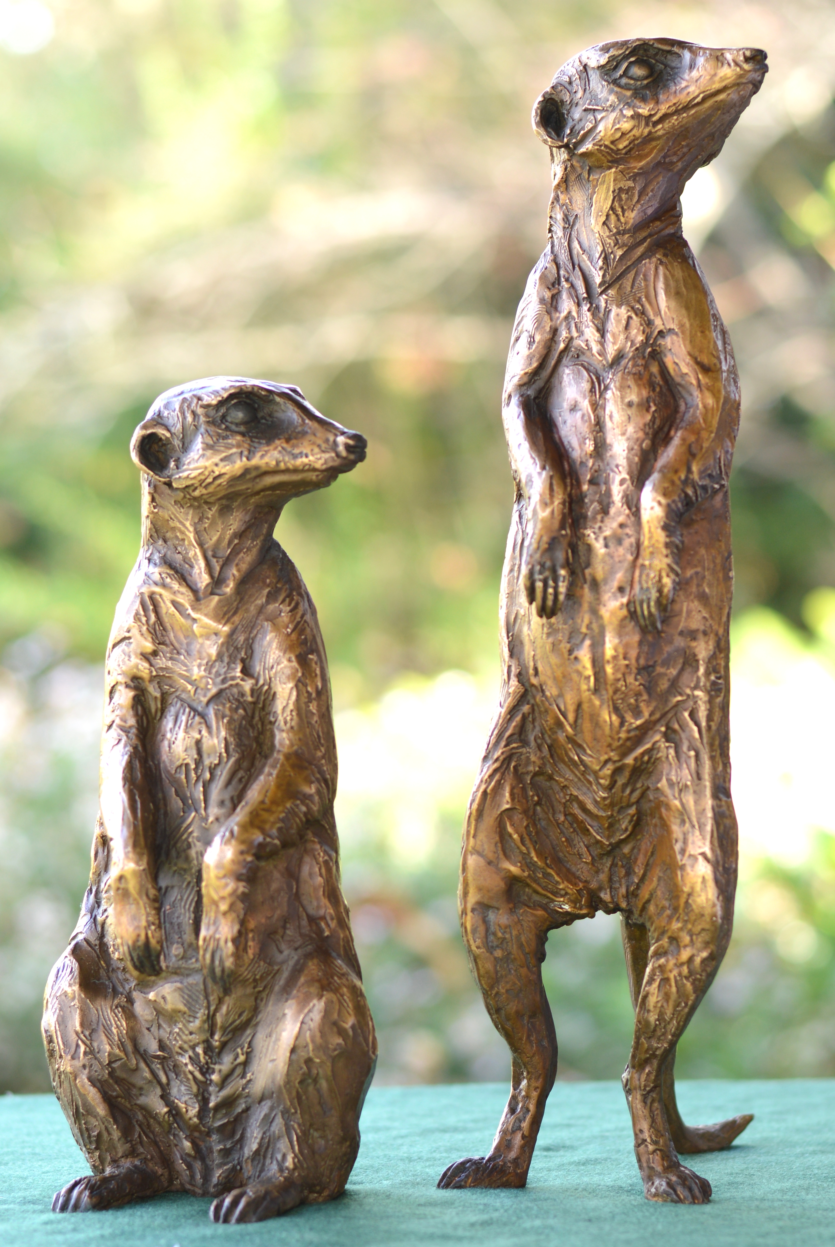 Bronze sculptures of a pair of Meerkats by artist Sarah Richards